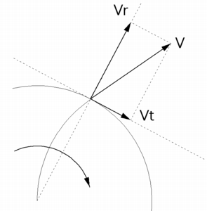 Schematic of the velocity pattern in a centrifugal pump Author : R. Castelnuovo (myself) on 2005 09 14